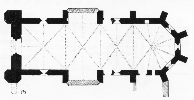 Carmelite Church, Famagusta